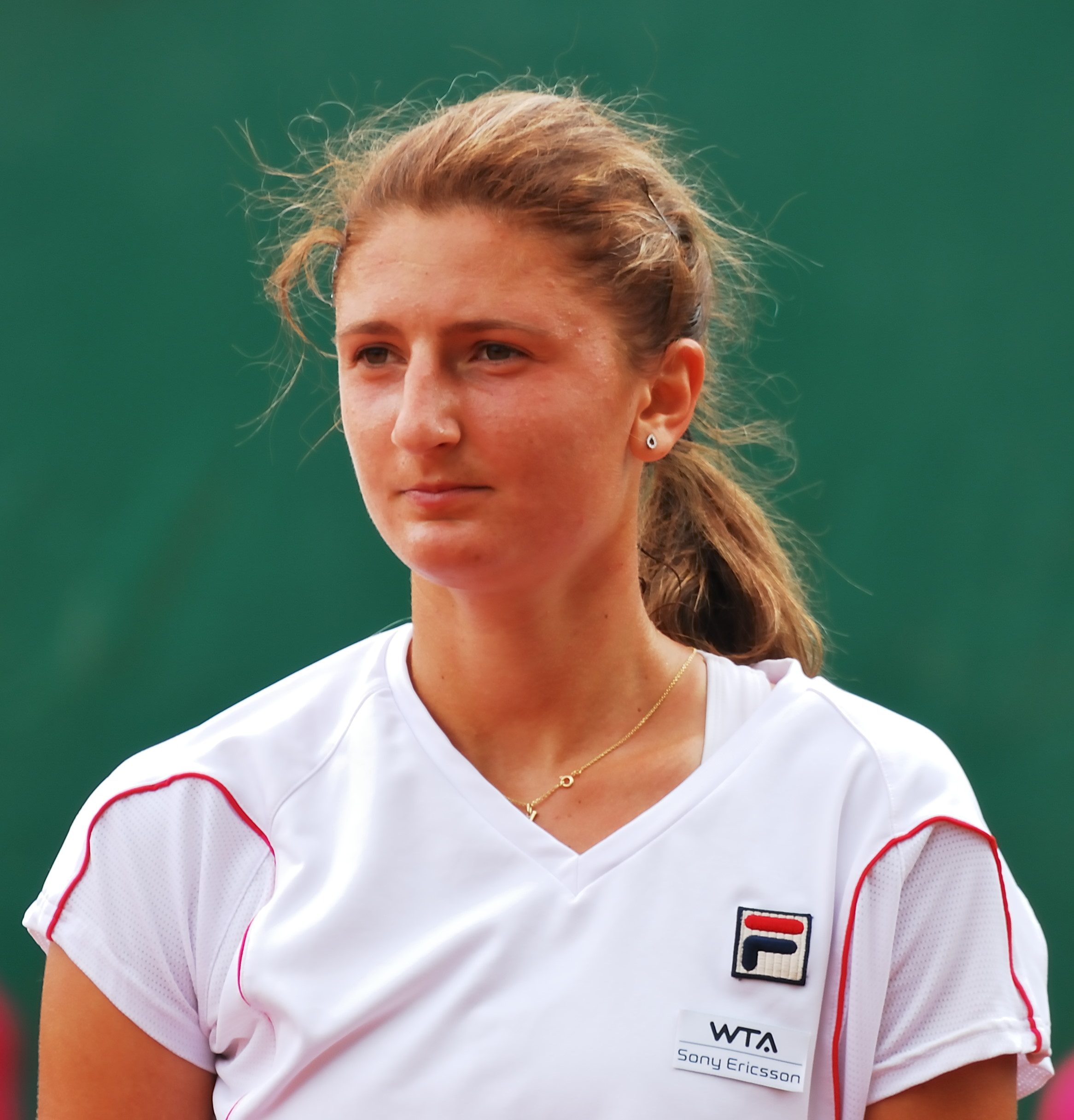 Irina-Camelia Begu in Budapest (2011)